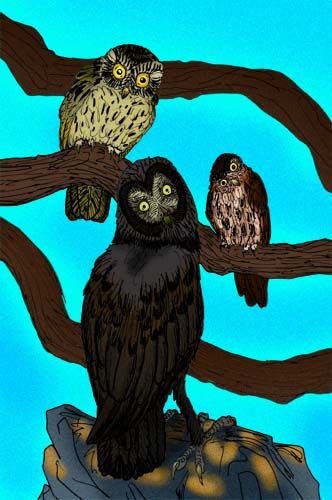 Reconstructions of various extinct owls of Late Pleistocene Southern California, including Asphaltoglaux cecileae (upper left), Glaucidium kurochkini (upper right), and Oraristrix brea (center)